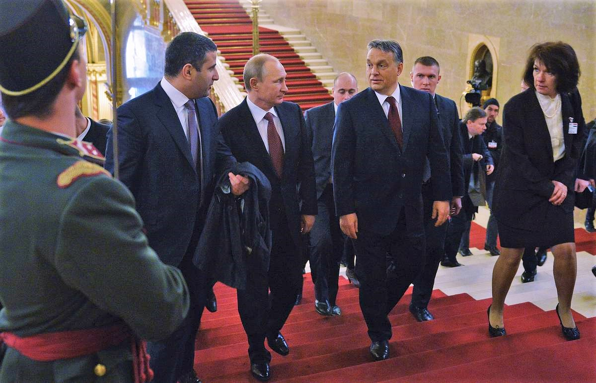 Vladimir Putin with PM Viktor Orbán on a visit to Hungary in February 2015